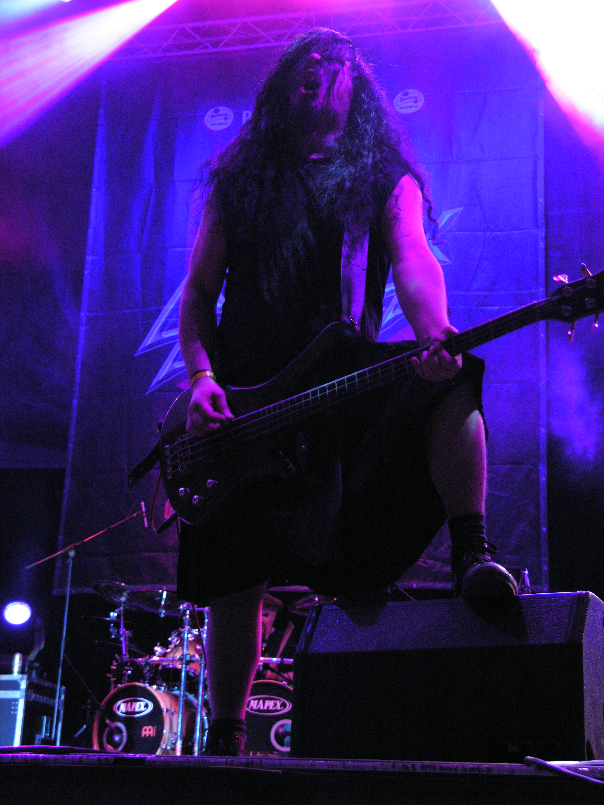 Sami Uusitalo from Finntroll during Masters of Rock 2007 festival